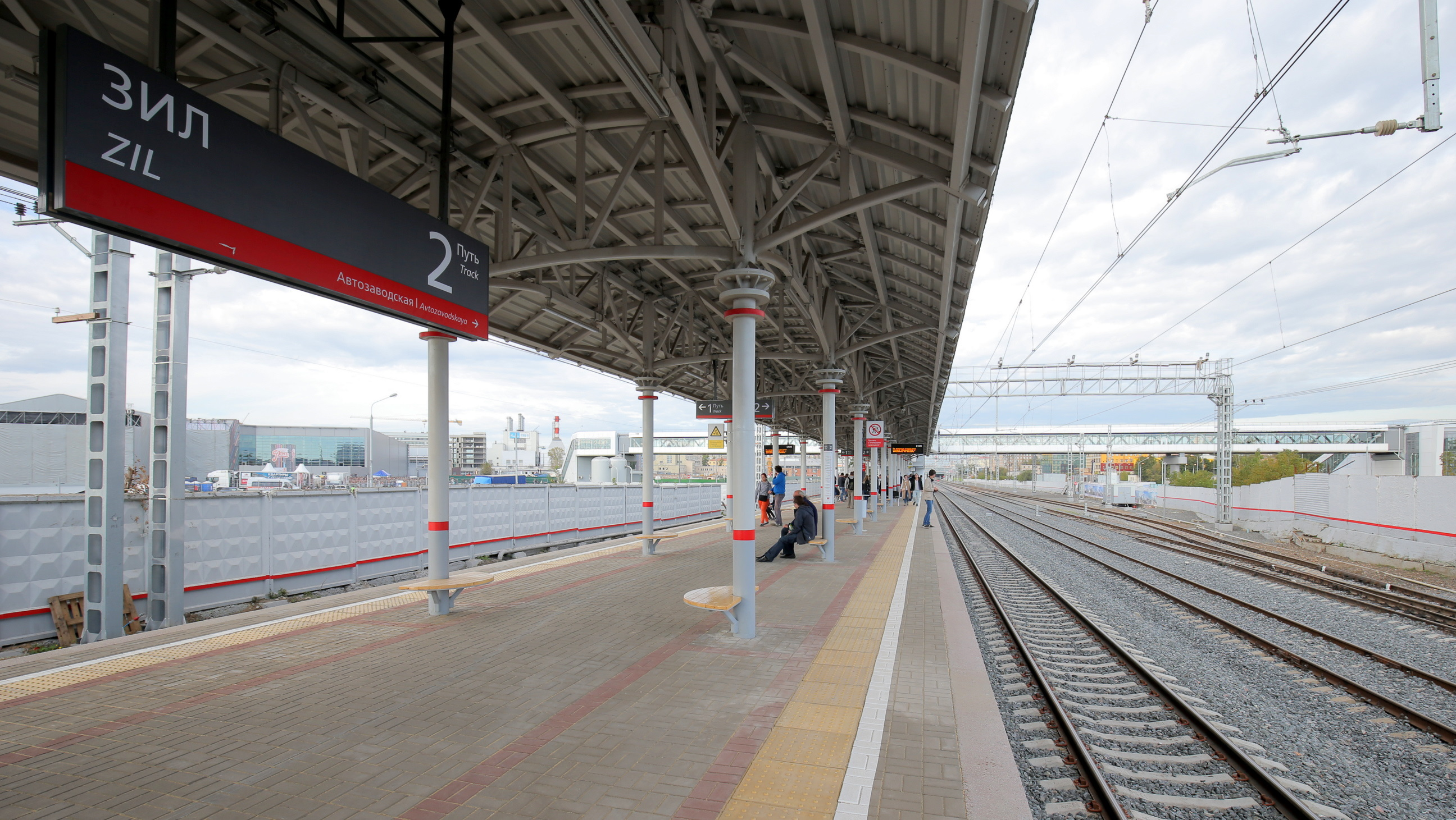 "ZIL" station of MCC